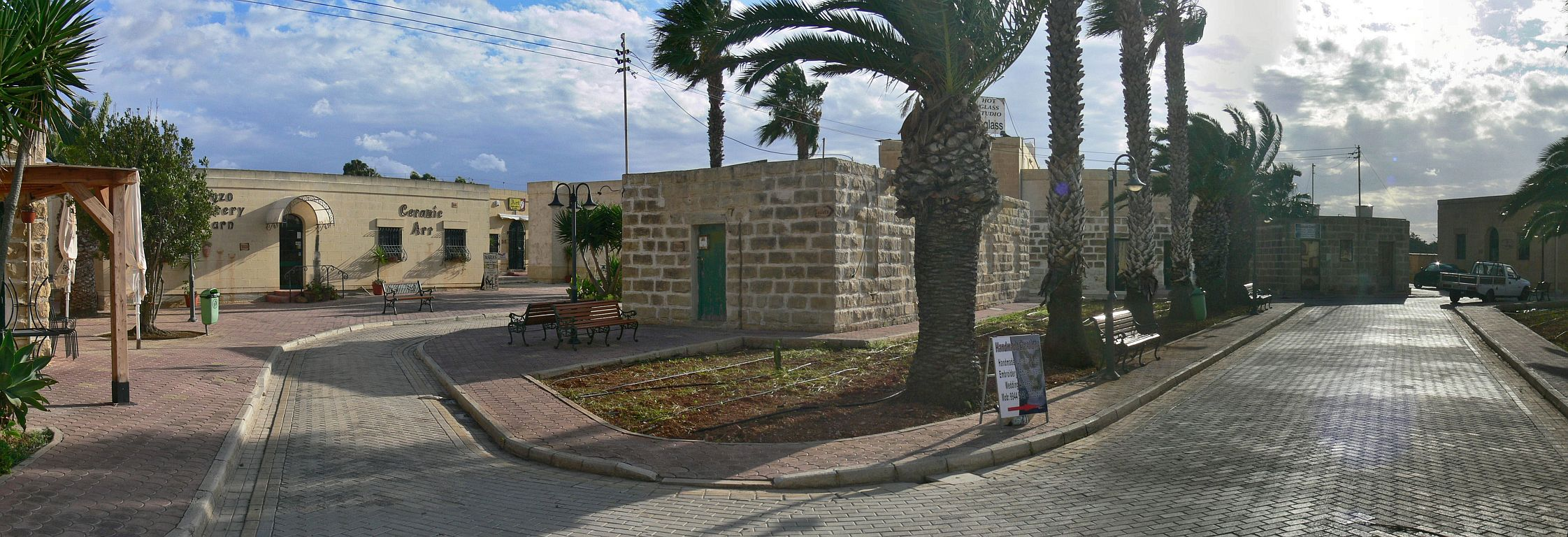 Ta' Dbiegi Crafts Village, San Lawrenz, Gozo, Malta